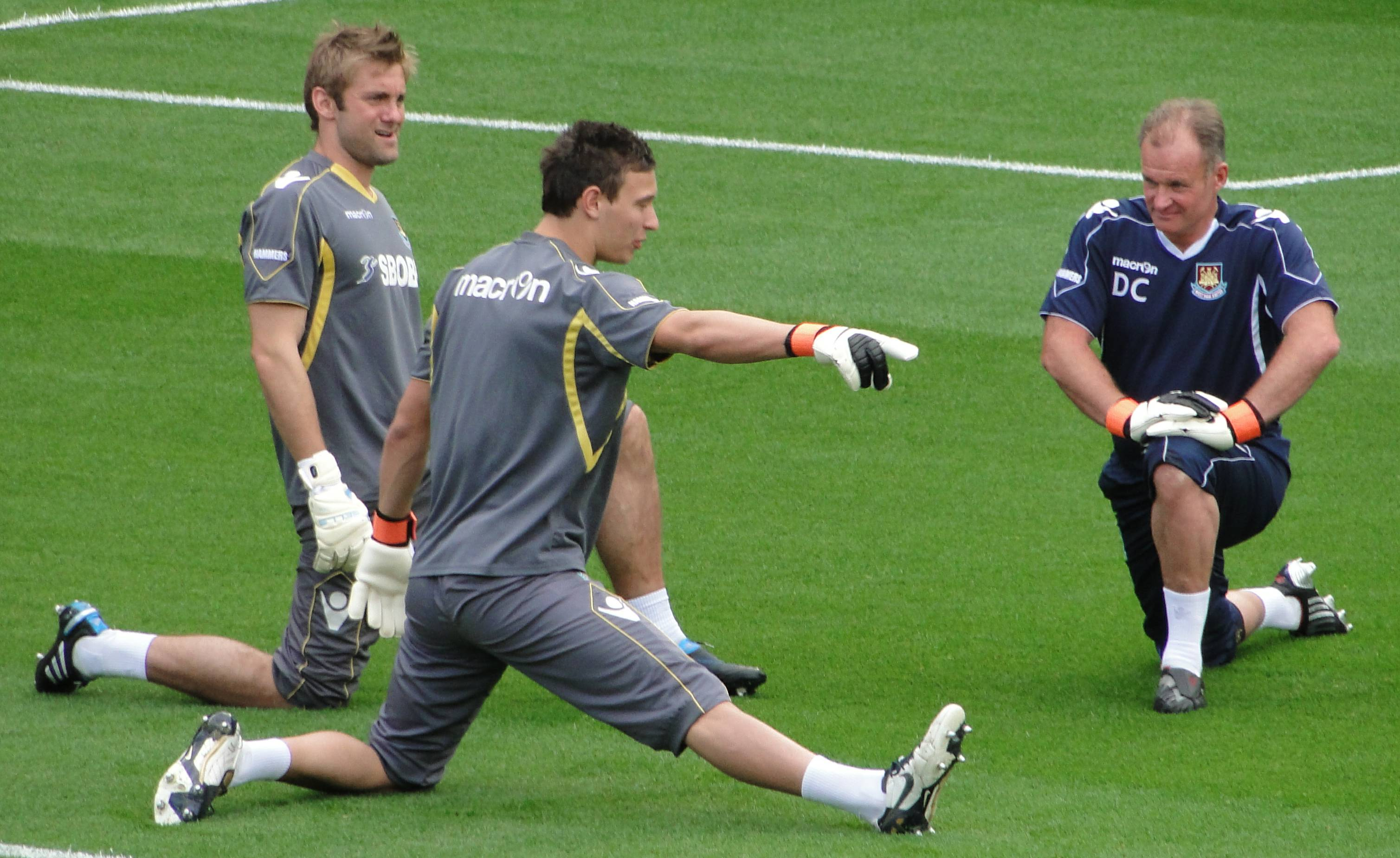 West Ham's goalkeepers, Robert Green, Marek Štěch and goalkeeping coach, David Coles, warming-up before a game on 11/9/2010 against Chelsea